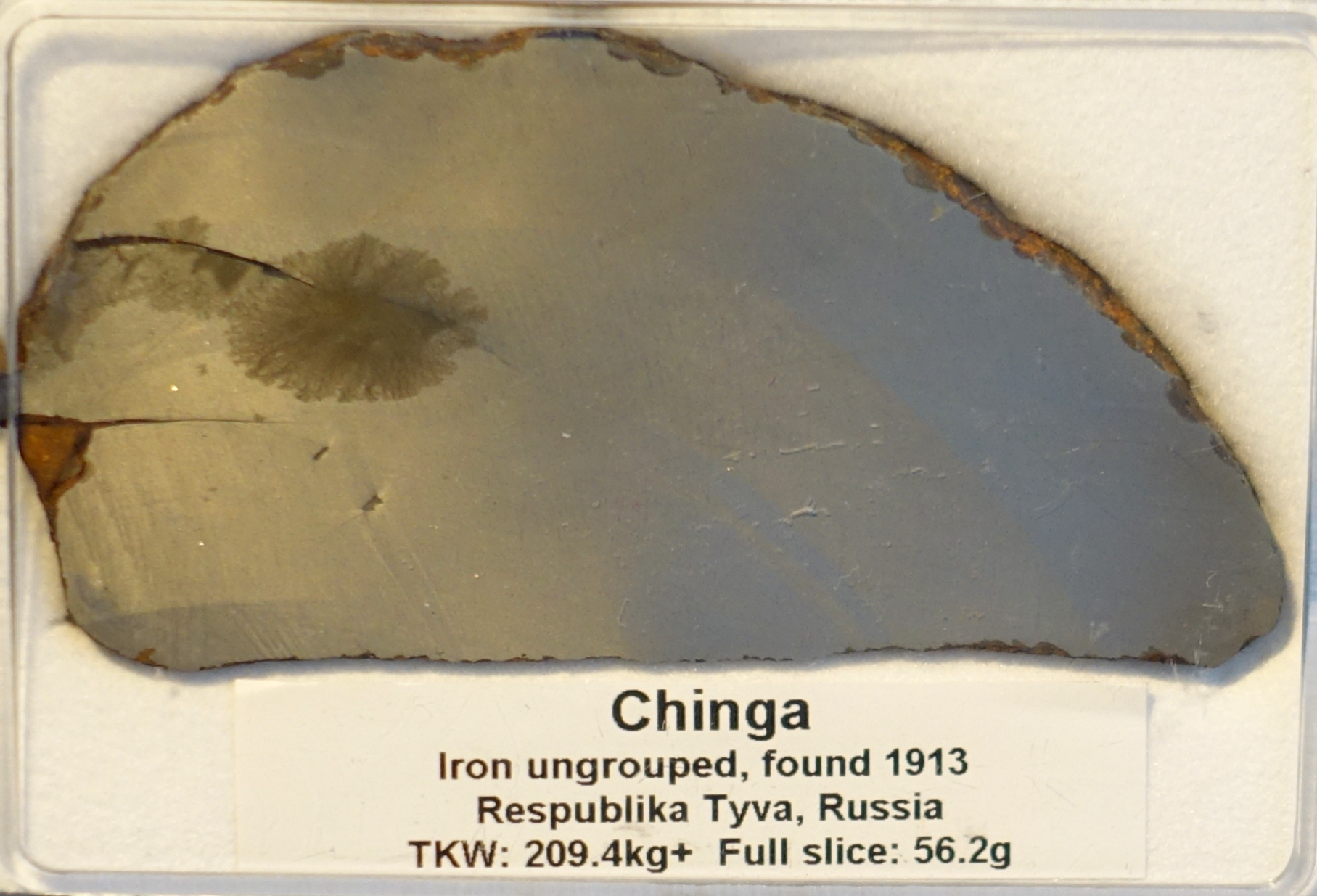 Exhibit in the Naturhistorisches Museum Nürnberg - Nuremberg, Germany.